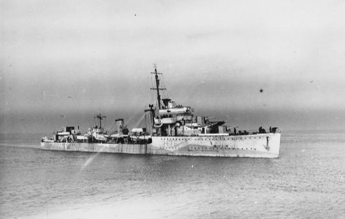 Photograph of British destroyer HMS Fury underway.